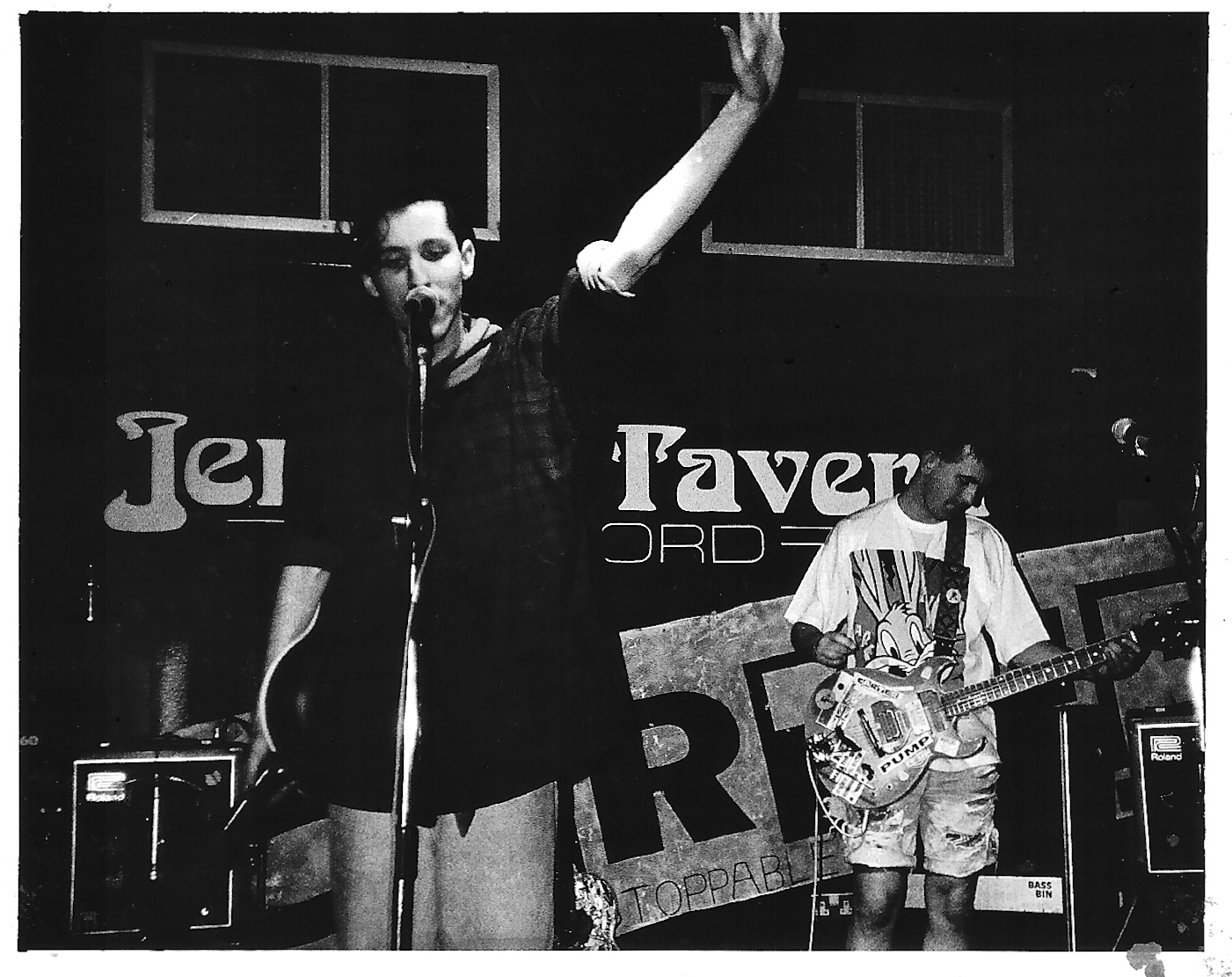 Carter the Unstoppable Sex Machine. Jericho Tavern, Oxford 1989 Oxford Gig photos 1989-90. Includes Ride, Carter, the Shamen, Mega City Four Neate photos facebook page. More neate photos.